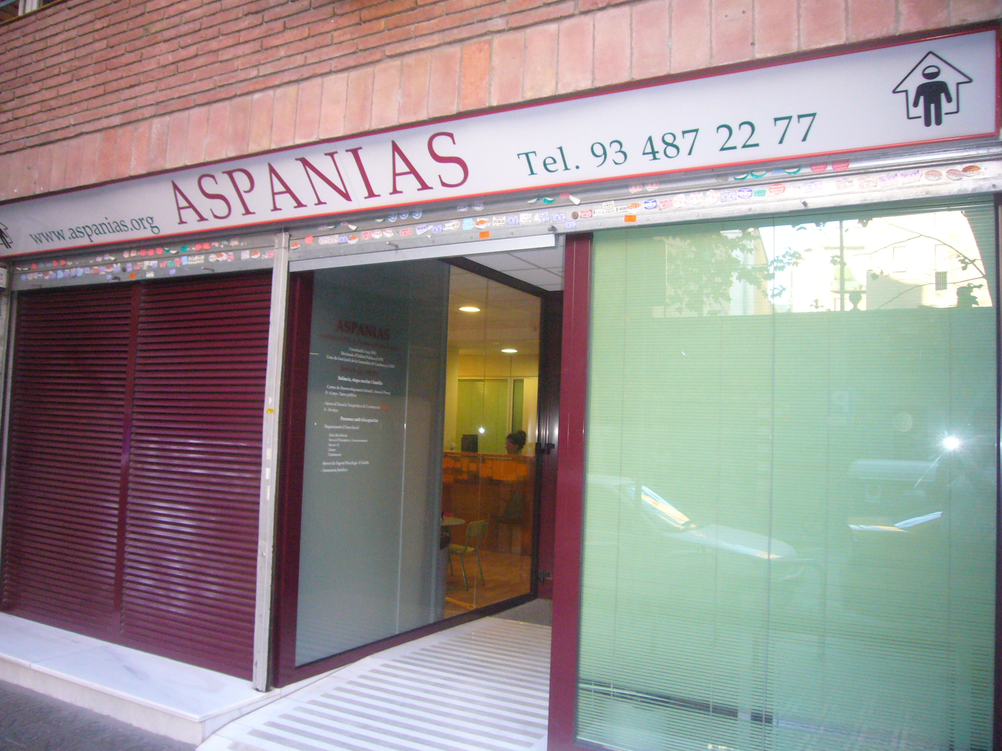 Seu d'ASPANIAS al carrer dels Enamorats, barri El Camp de l'Arpa del Clot, districte de Sant Martí, Barcelona